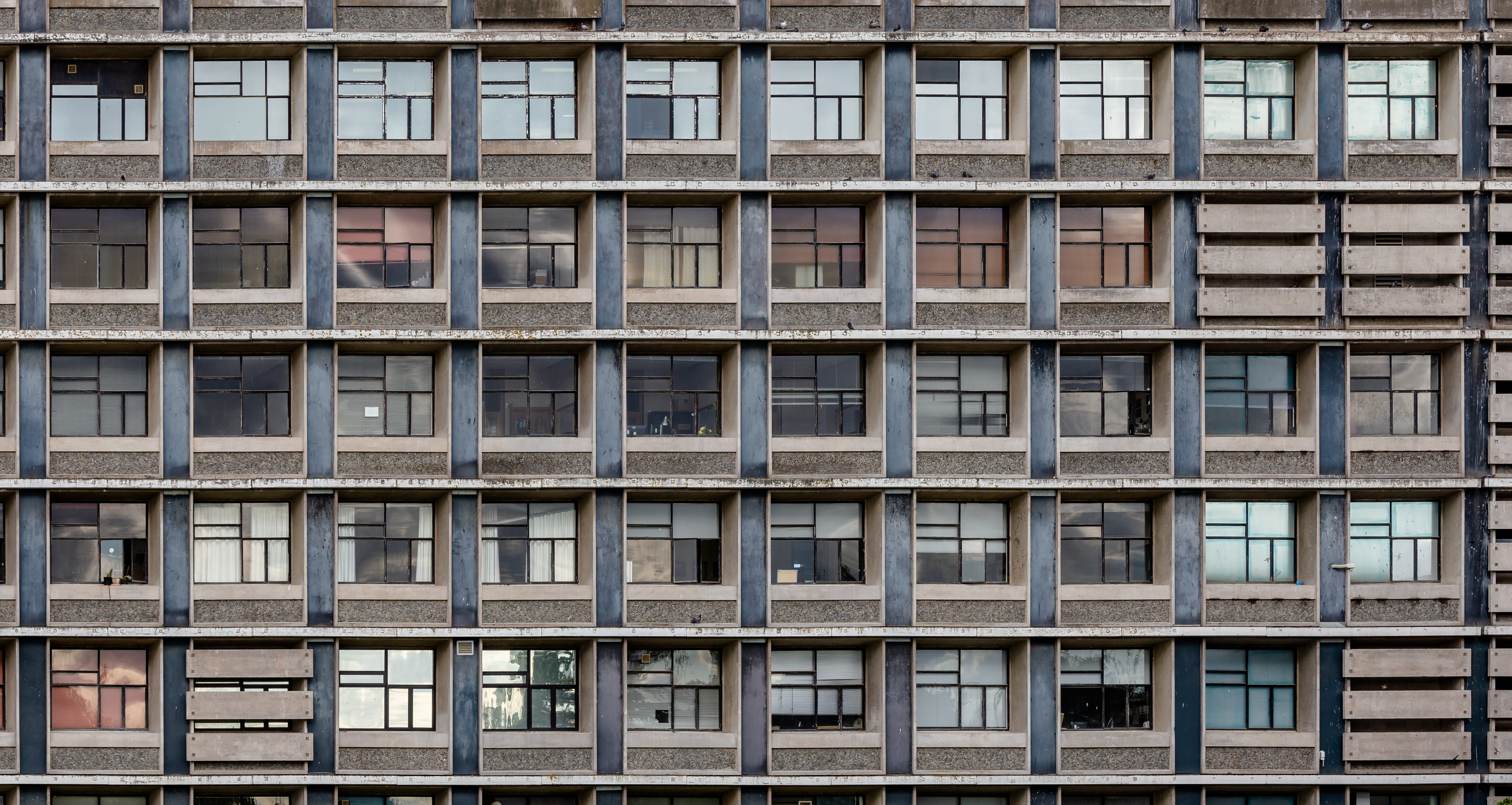 Burns Building, Lincoln University Campus, New Zealand